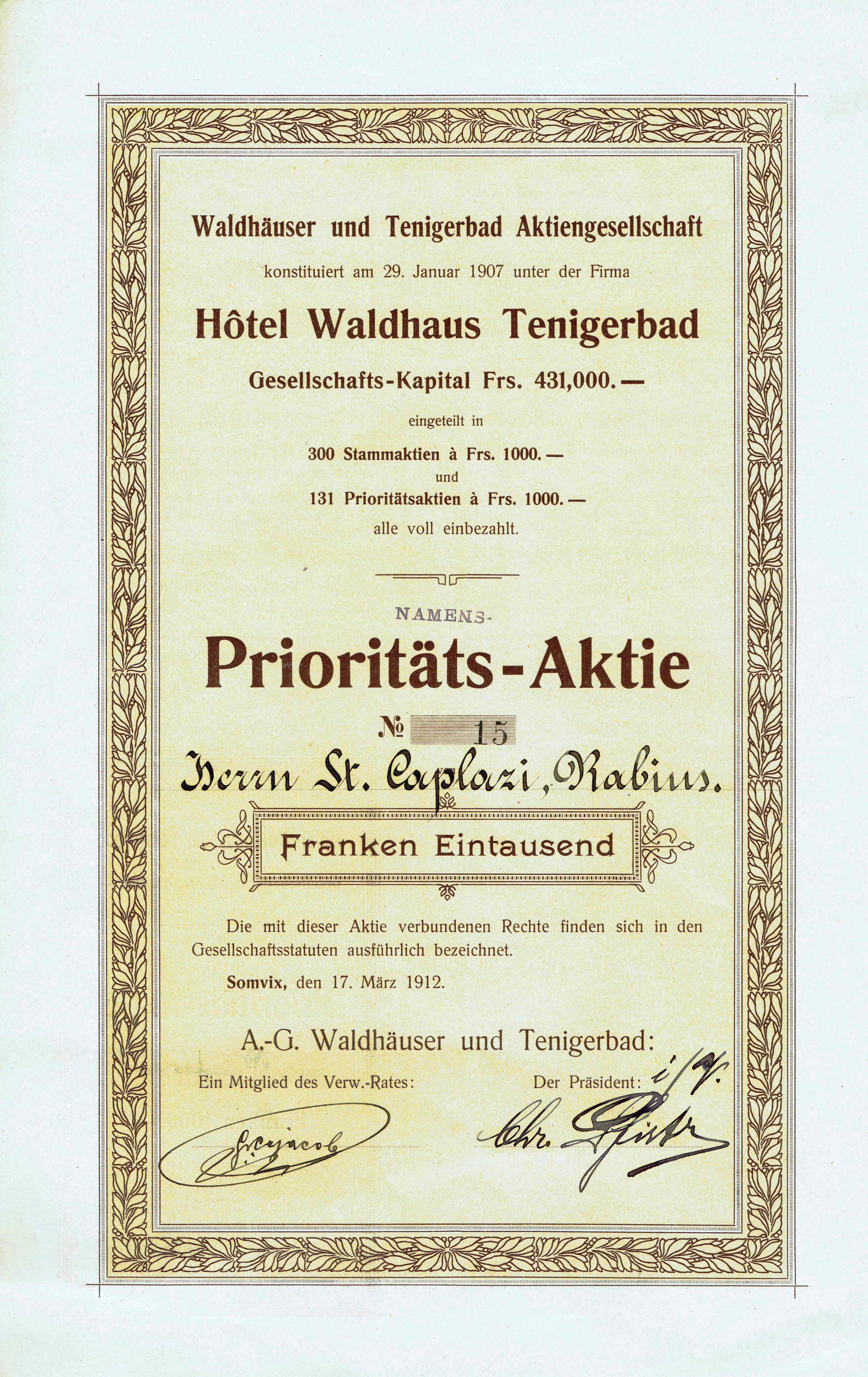 Priority Share of the Waldhäuser und Tenigerbad AG, issued 17. March 1912